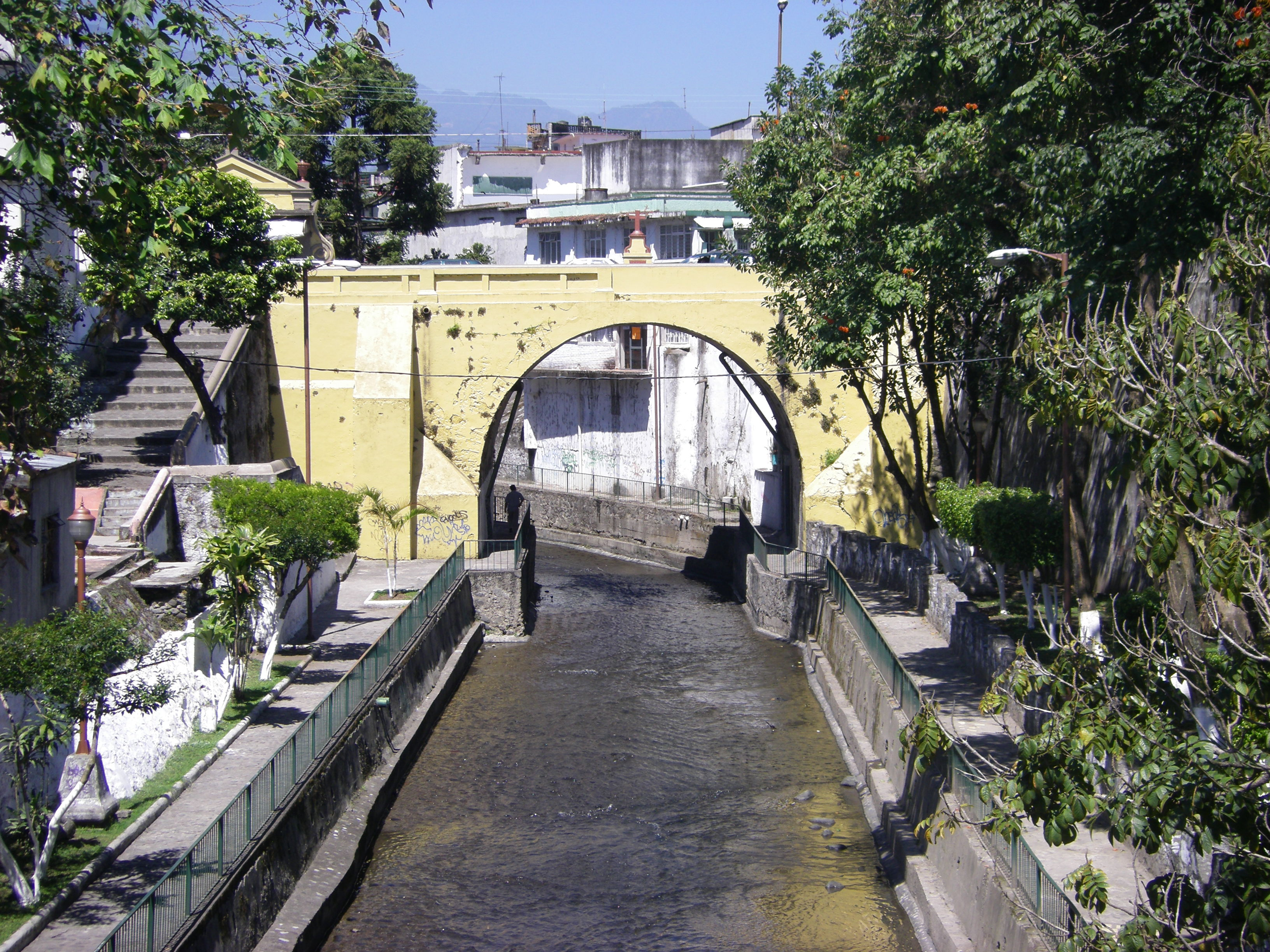 View from a bridge in Orizaba down to the river of the same name